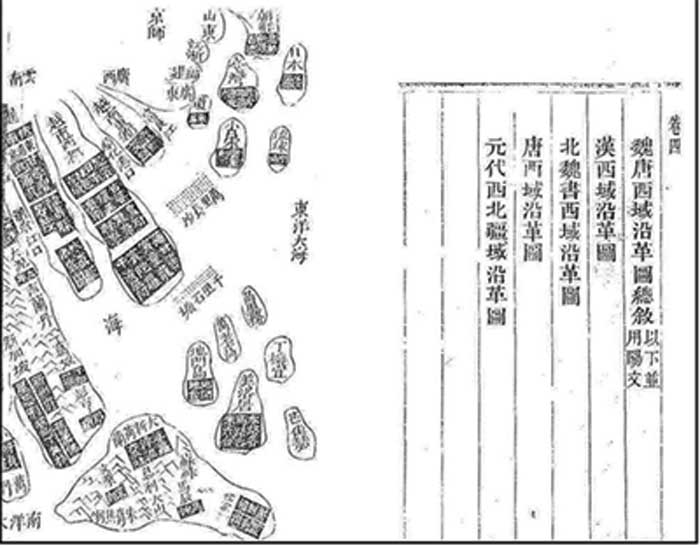 A map in Phủ Biên Tạp Lục depicting Bãi Cát Vàng, the Golden Sandbank, 1776.